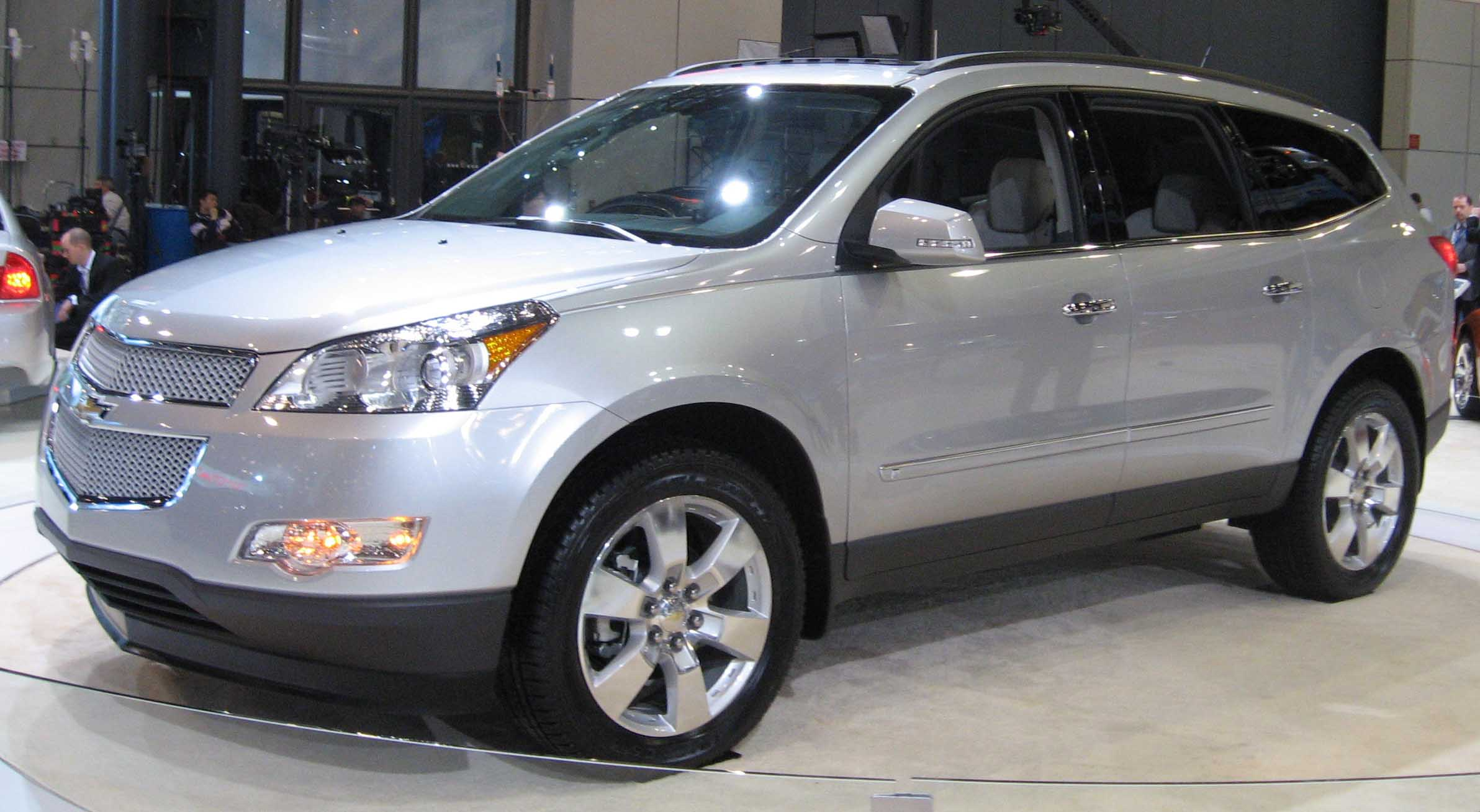 2009 Chevrolet Traverse photographed at the 2008 New York Auto Show.